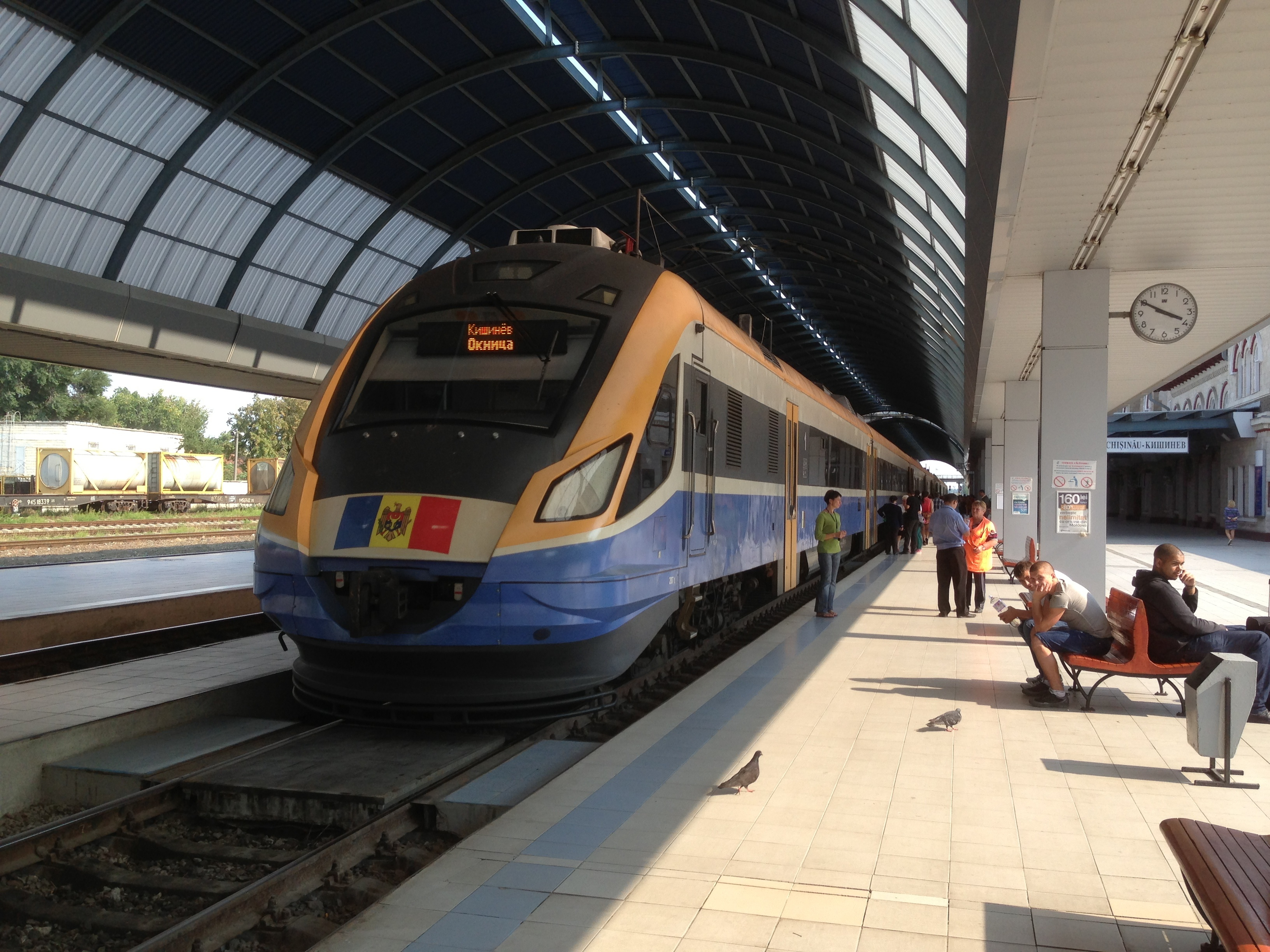 Chisinau Moldova Moldovan Railways